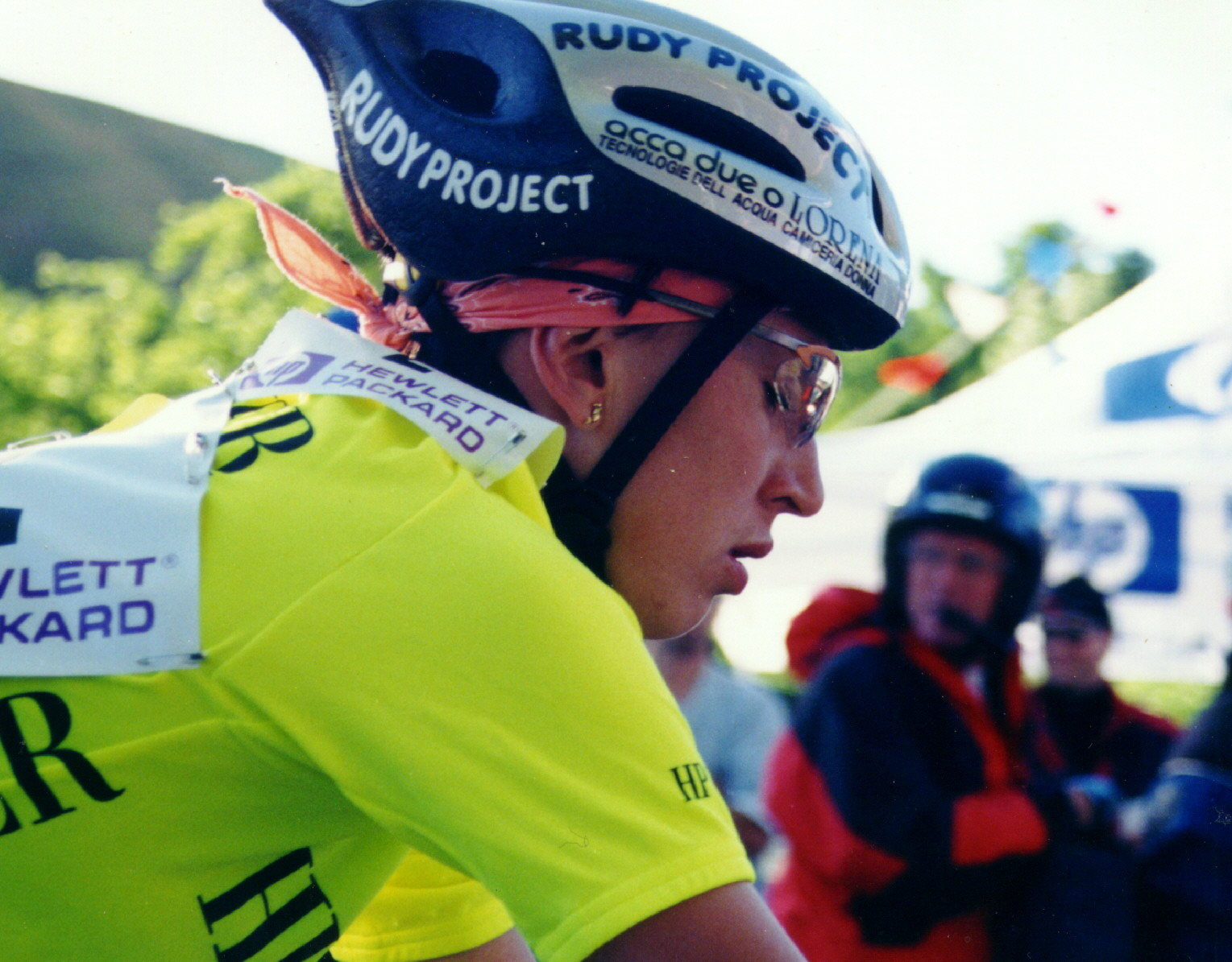 Zulfiya Zabirova just prior to her start in the time trial event at the 1998 Women's Challenge bicycle stage race.